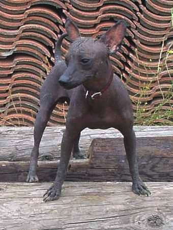 Mexican Hairless